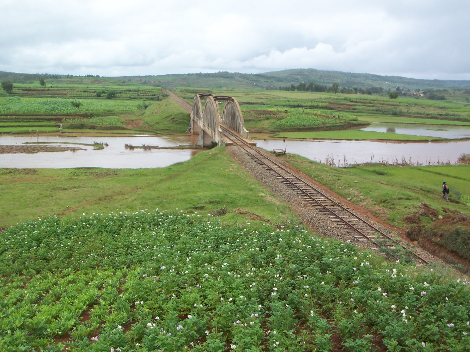 Somewhere in Madagascar, railroad bridge crossing a river.